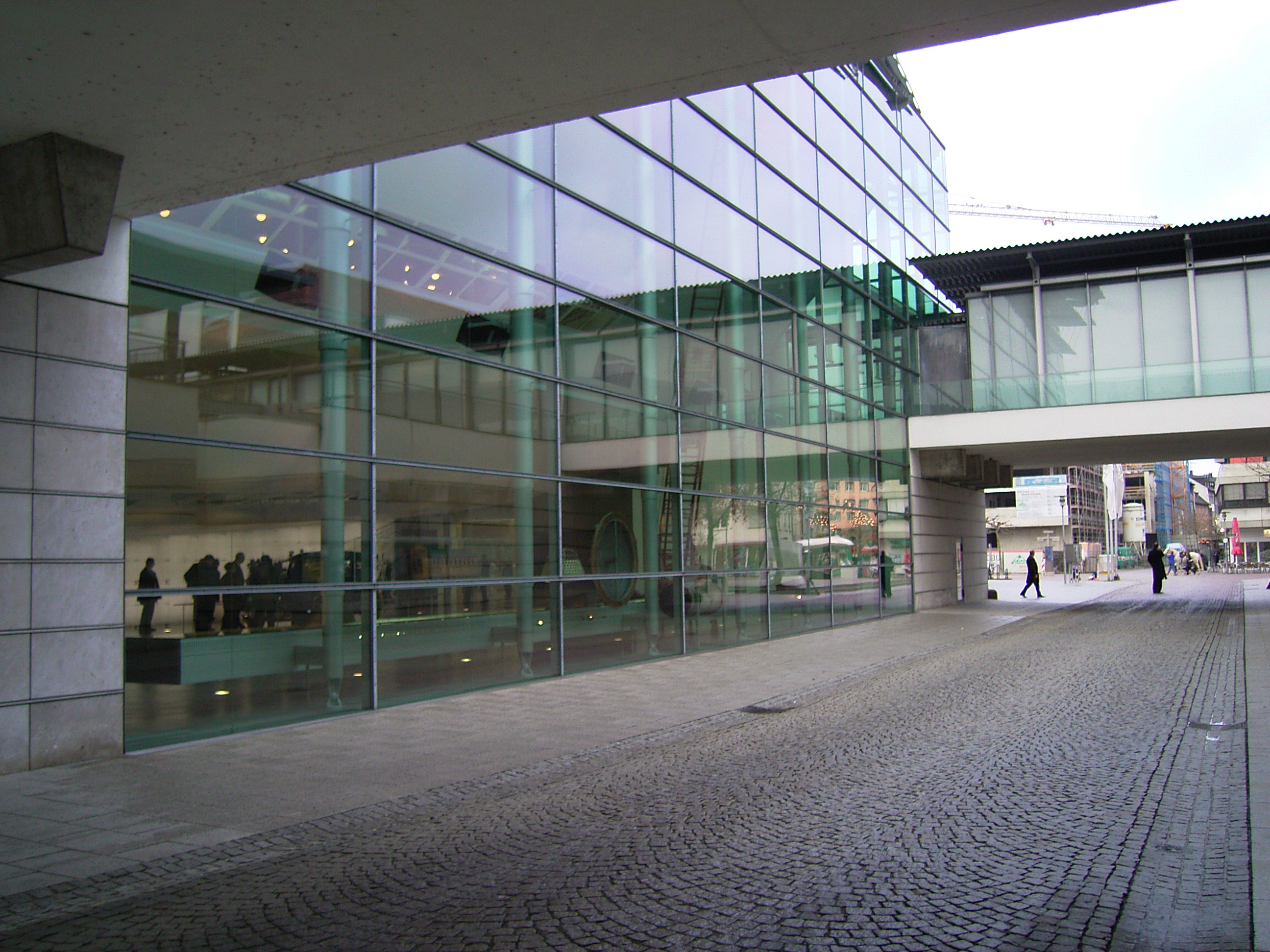 Zeppelinmuseum